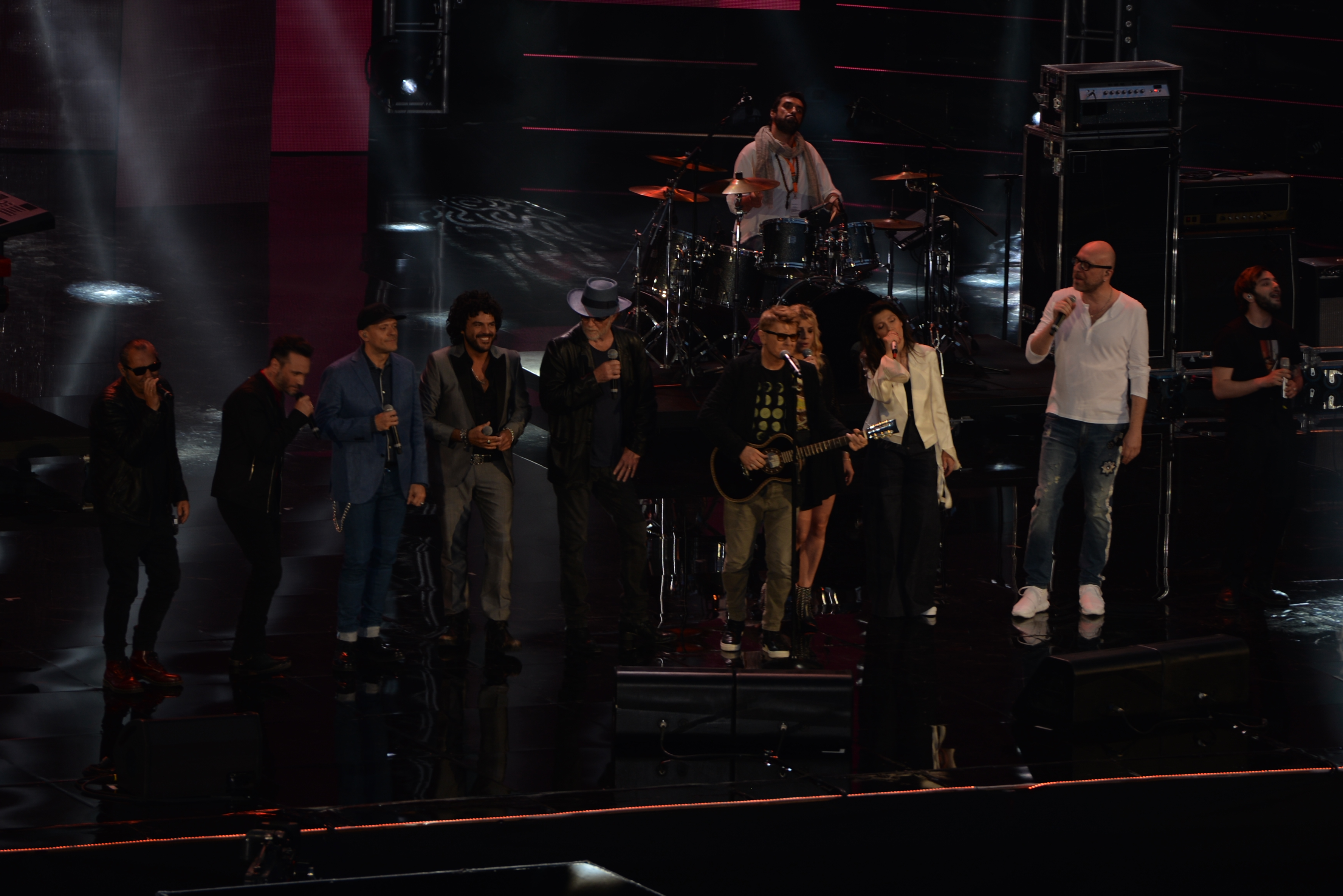 Ron during the 2016 Wind Music Awards ceremony at Verona Arena